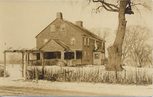 This is my copy of a ca. 1900 photo of the Philip Walker house in East Providence, Rhode Island (originally Rehoboth, Massachusetts)